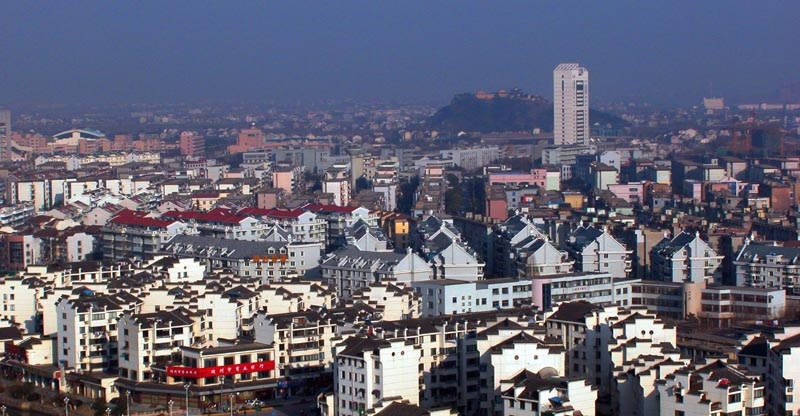 The East of HuZhou